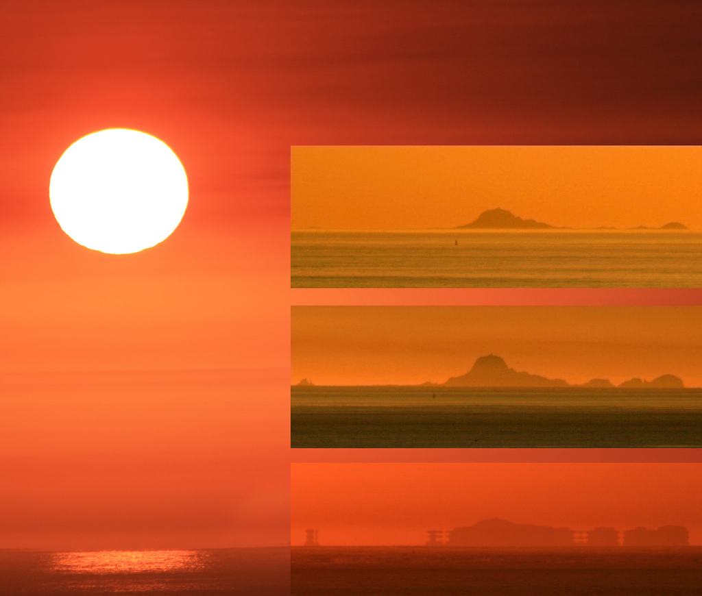 The image was composed out of the three frames taken from the same place of the same place (Farallon Islands). The difference in the appearance was kindly explained by Dr. Andy Young: "Brocken Inaglory has an illustration, containing 3 different views of the south-east Farallons with different refraction conditions: the top image shows just looming; the middle, looming with towering; and the bottom, a 5-image mirage, with the uppermost erect image severely stooped. These pictures were taken at heights of 40 to 66 meters on Point Lobos, near the Cliff House (San Francisco). The nominal distance to the sea horizon from a height of 40 meters is just about halfway to these islands and rocks, so only their parts above about 40 m height should be visible. An eye height of about 150 m would be required to put the sea horizon at the islands, assuming standard refraction. Even from 66 m, the lower peaks, such as Seal Rock (the isolated feature at the left of the photographs), which is 25 m high, should be almost completely hidden. However, a picture taken from a ship near the islands shows that everything is visible in Brocken Inaglory's pictures, even the low flats a meter or two above the sea. So looming is present in all the pictures taken from San Francisco." If you are interested to learn more about phenomenon, here's the page to read